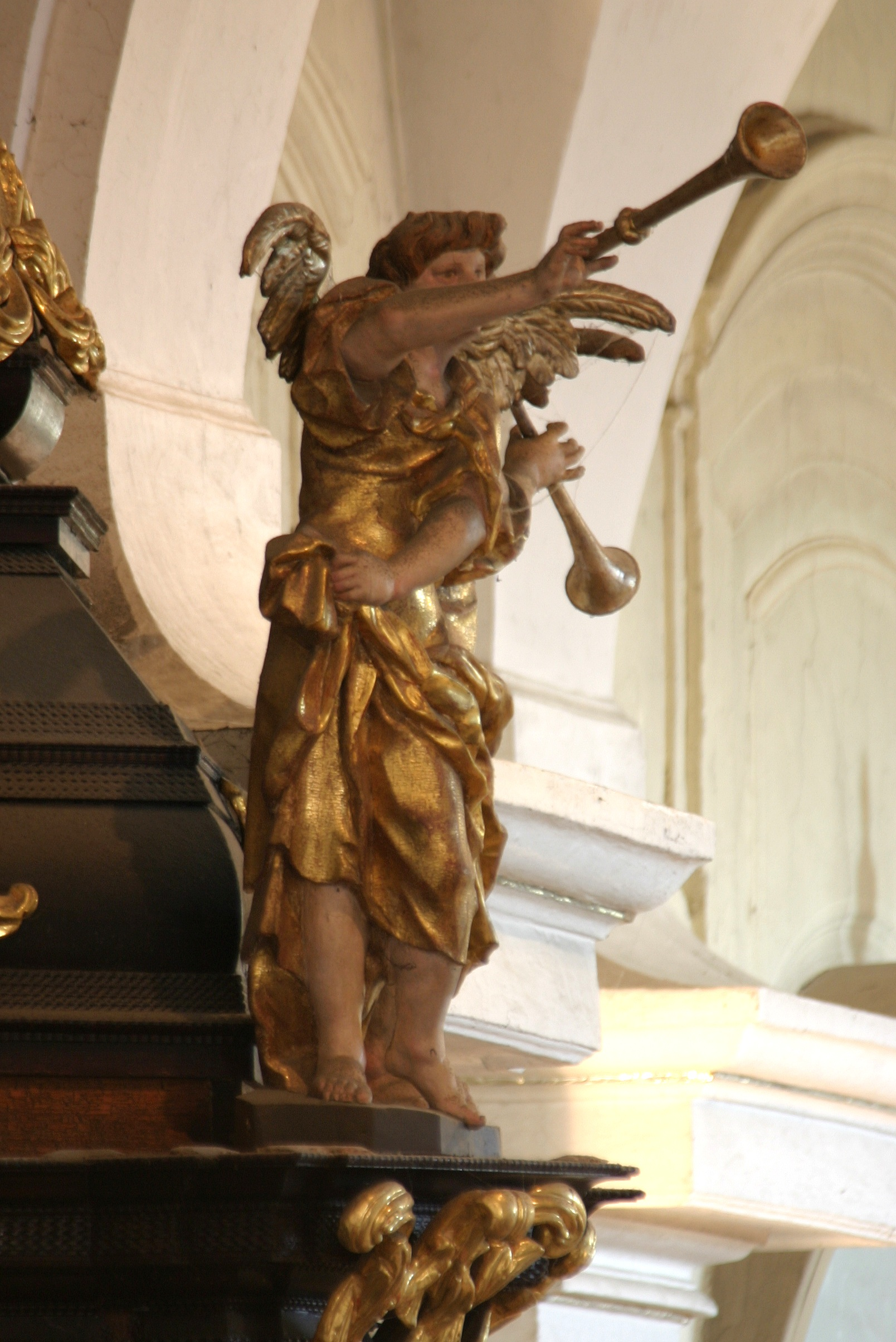 anděl b